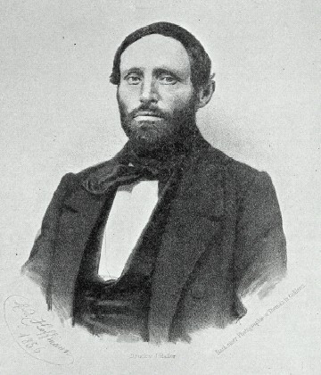 Picture of Karl Friedrich Mohr (1806 - 1879), the scientist